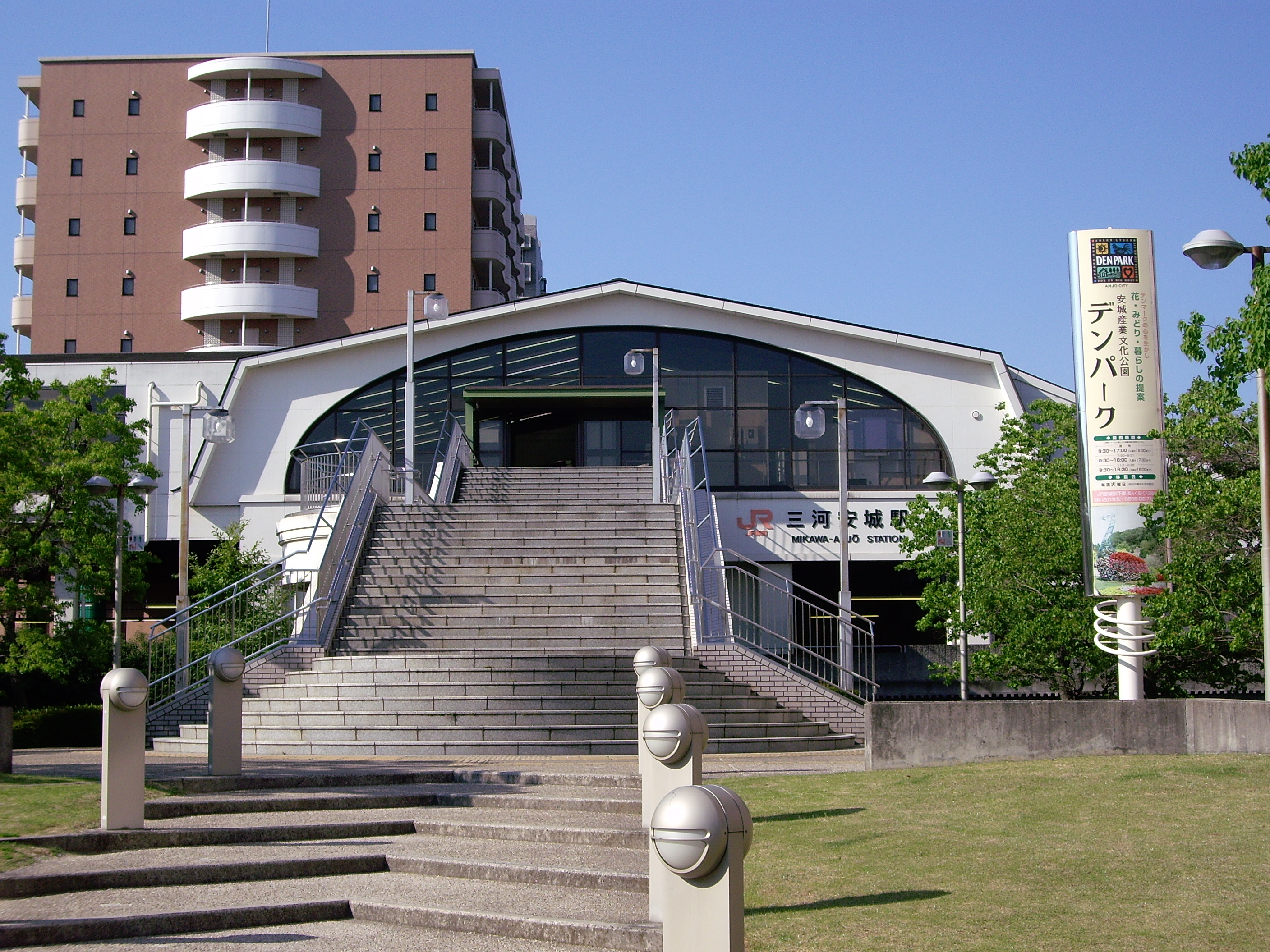 JR Mikawa-Anjo Station zairaisen(Tokaido Main Line)-south side.